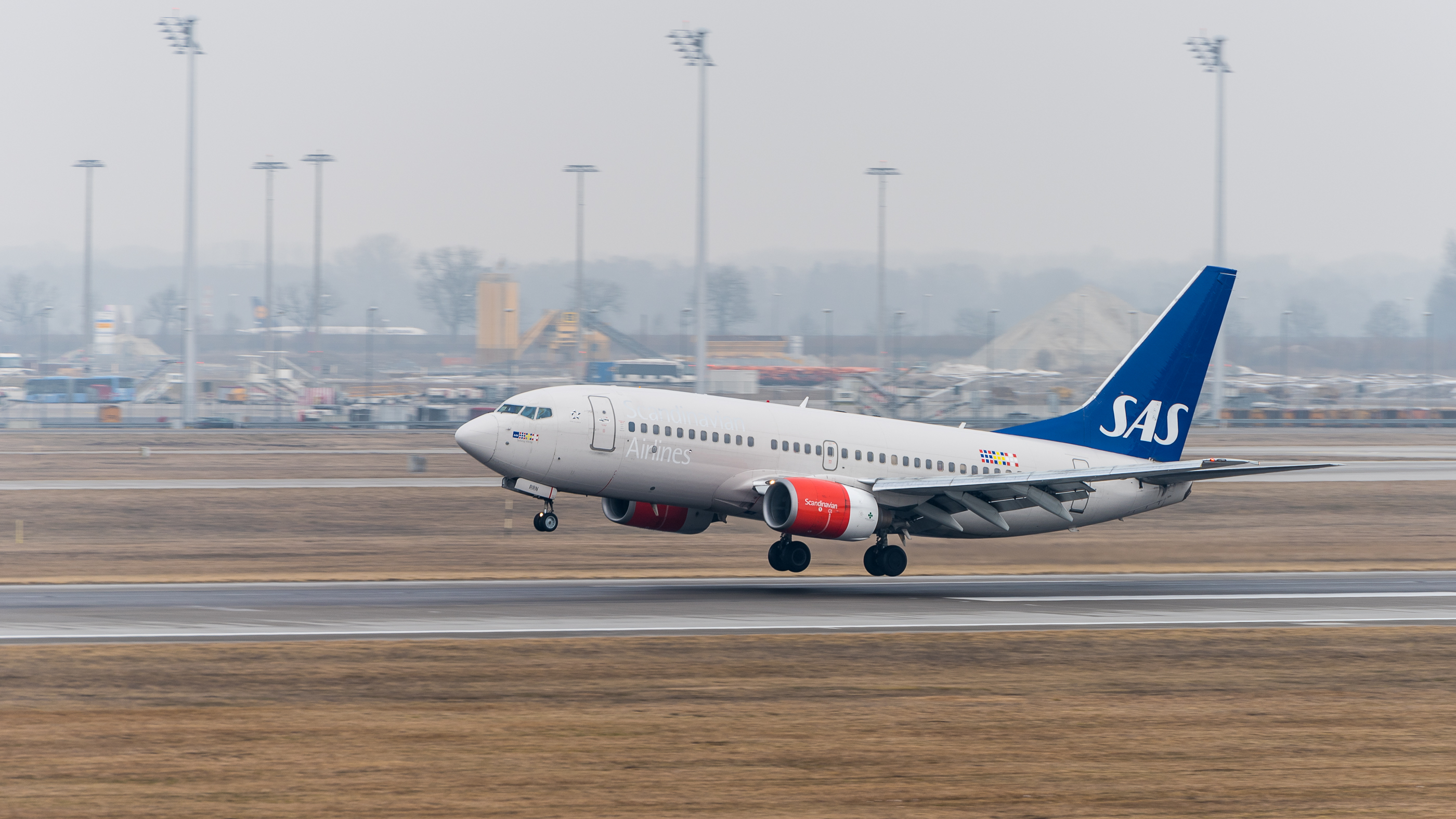 Scandinavian Airlines (SAS) Boeing 737-783 (reg. LN-RRN) at Munich Airport (IATA: MUC; ICAO: EDDM).